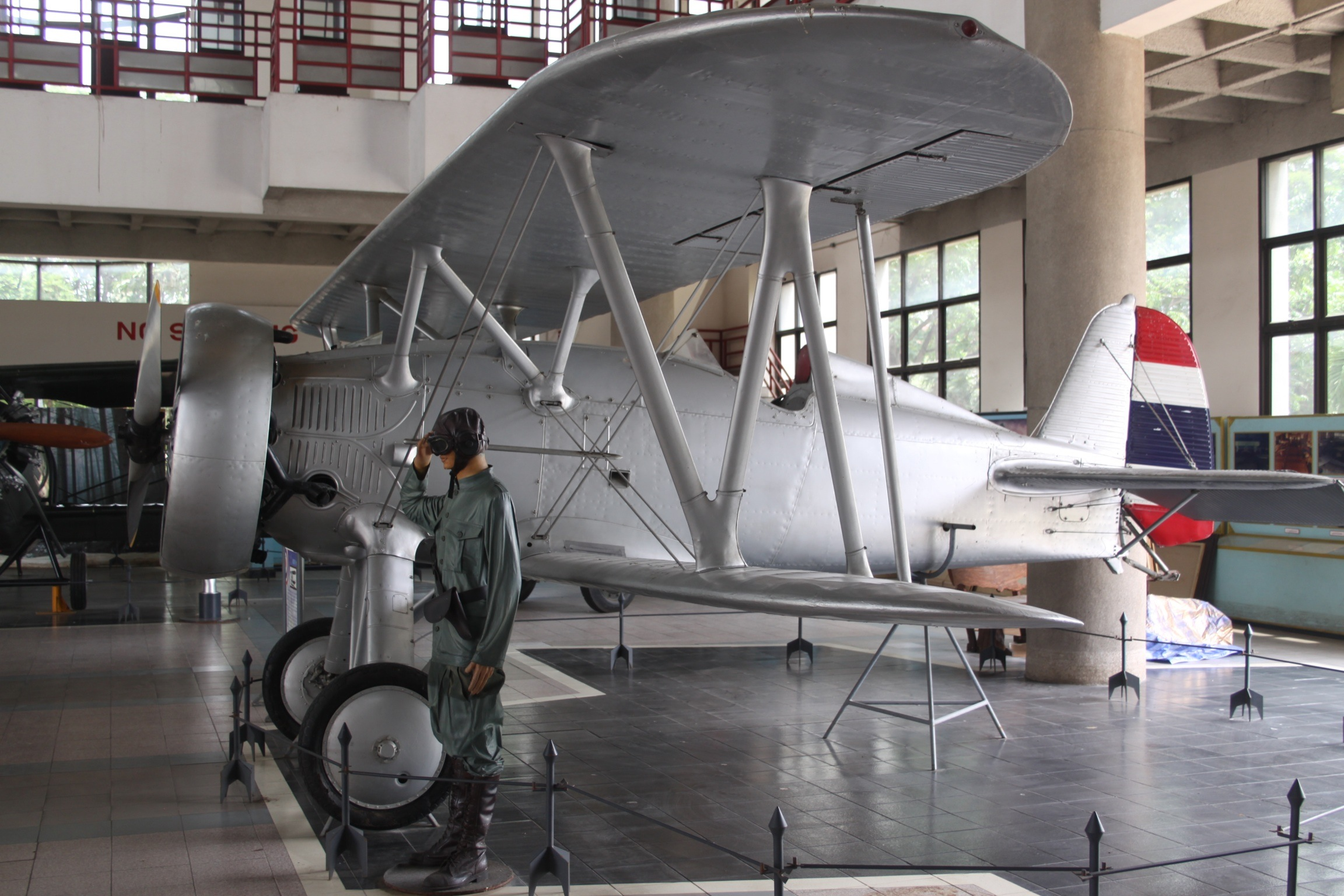 At Don Mueang International Airport